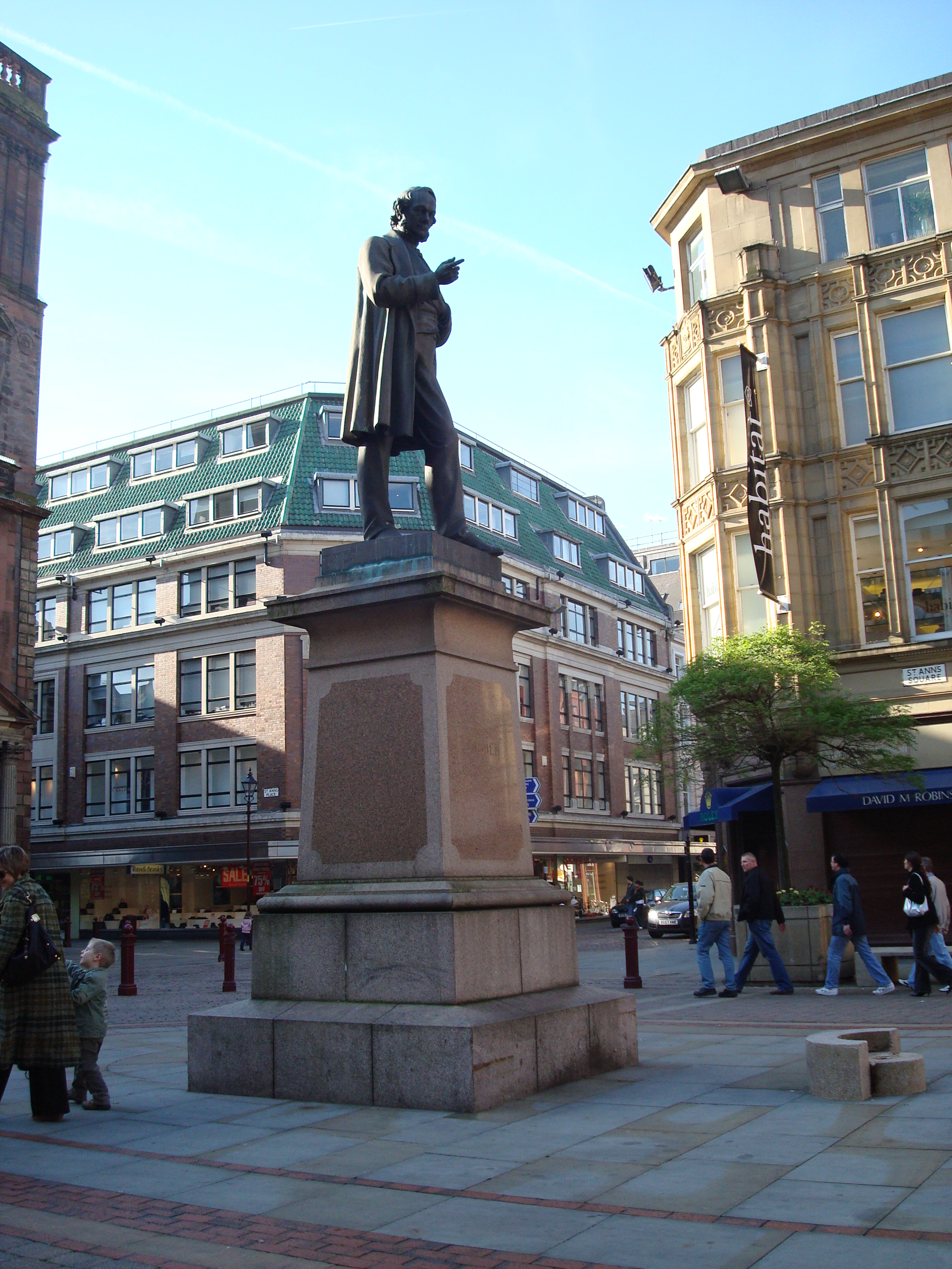 S Knights, my photo, Feb 2007 - sorry it's rather dark, do replace it if you have a better one